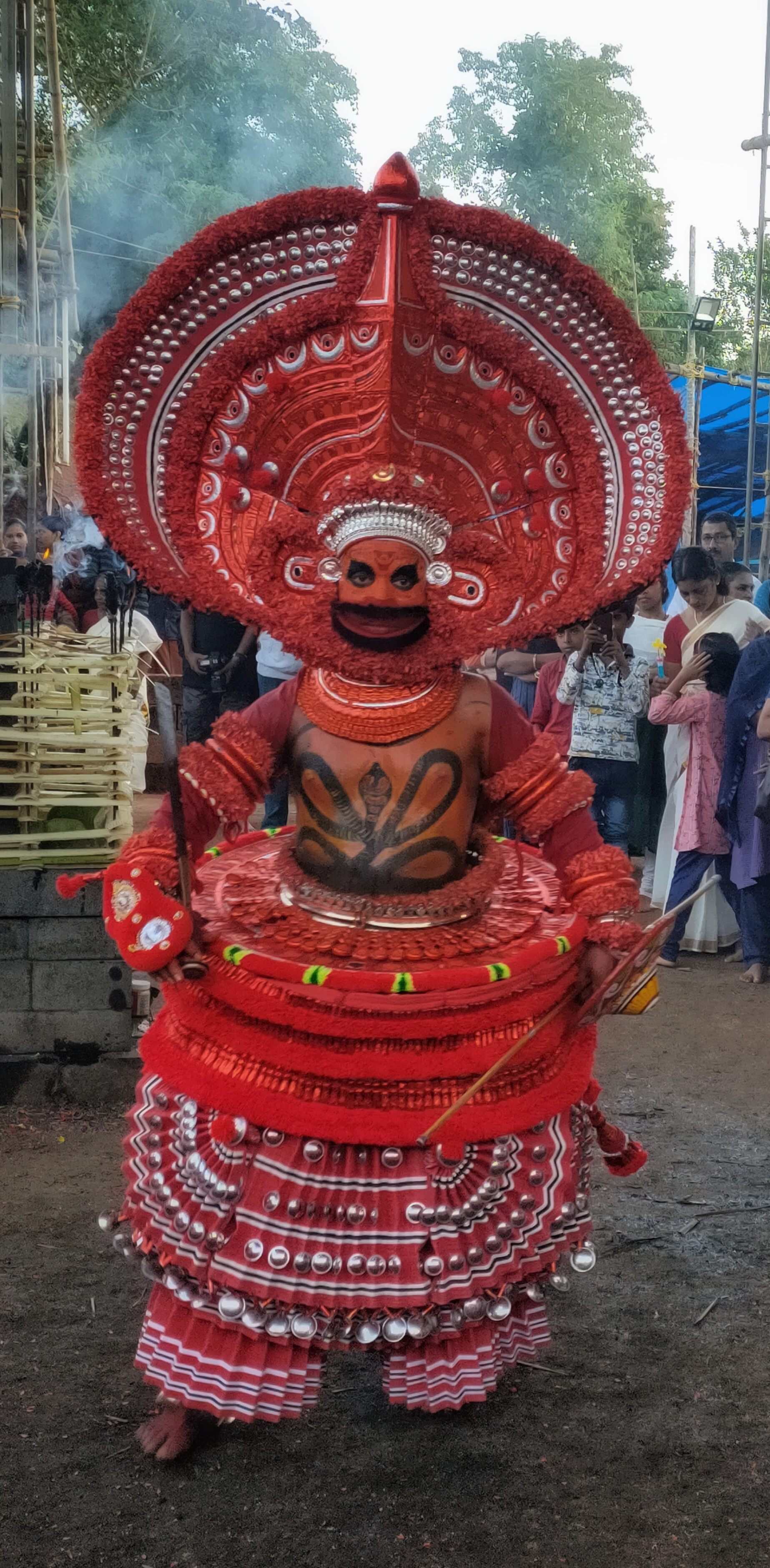 Chathamballi Vishakandan Theyyam